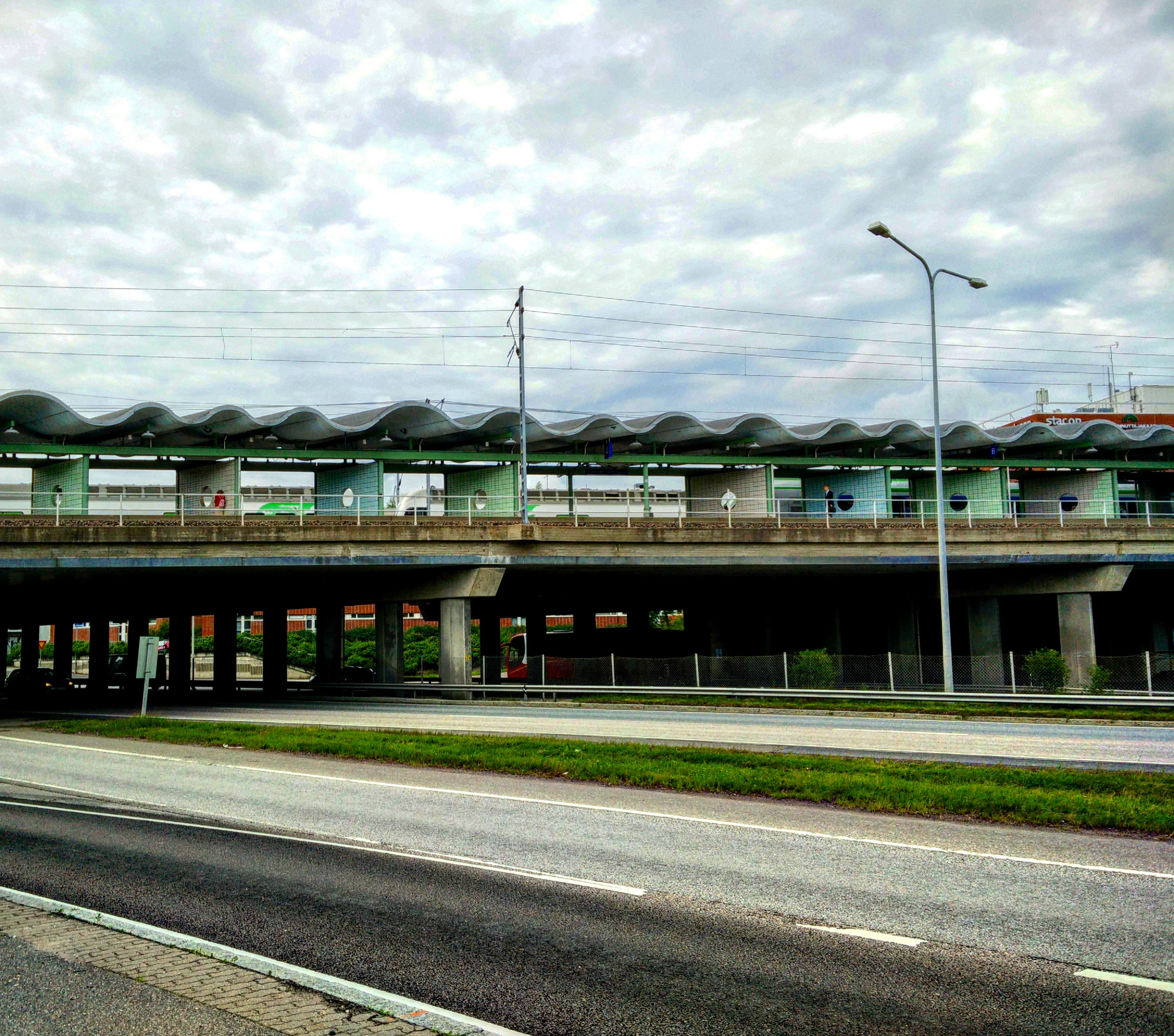 Pukinmäki railway station in Helsinki.